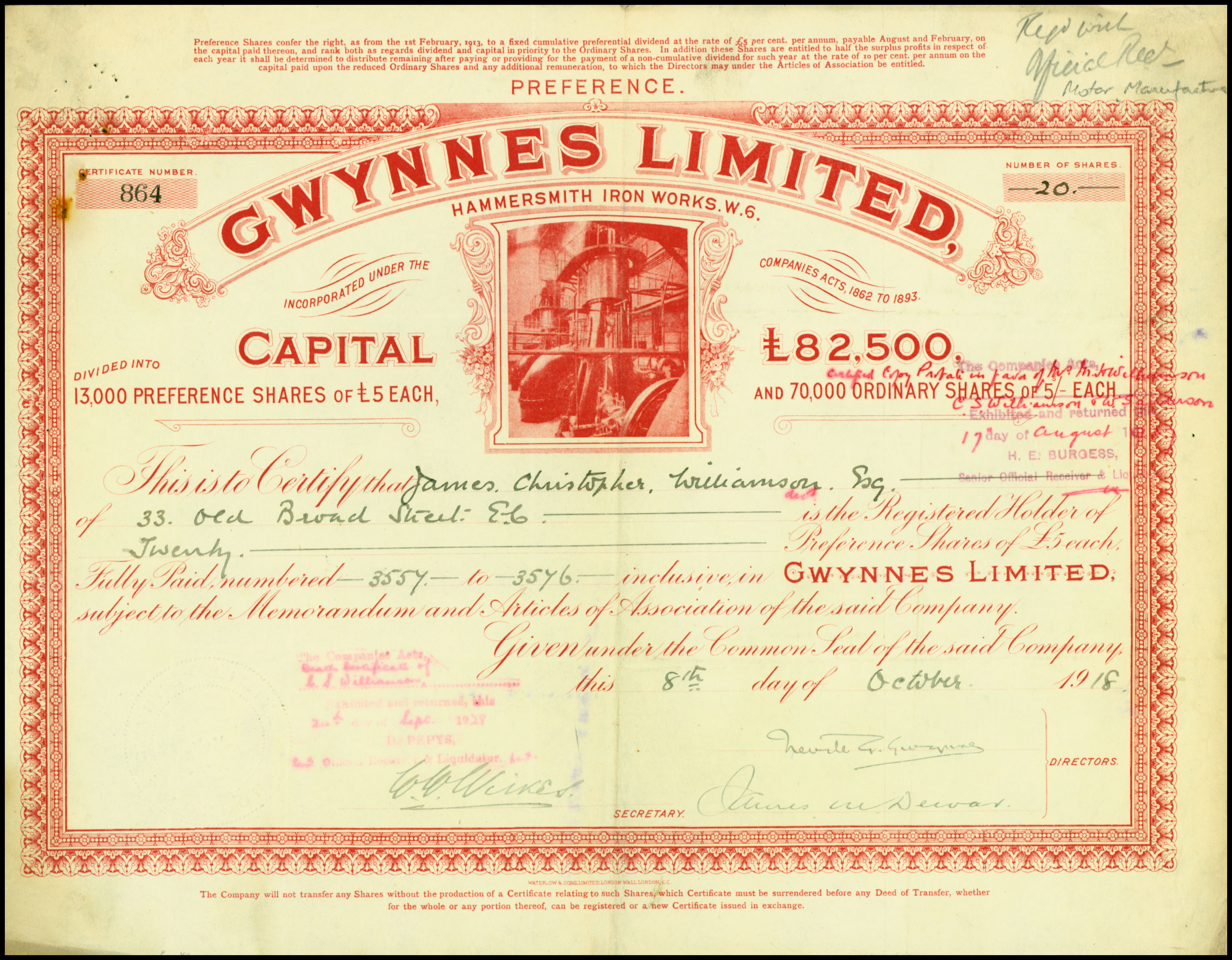 Share of the Gwynnes Ltd., issued 8. October 1918